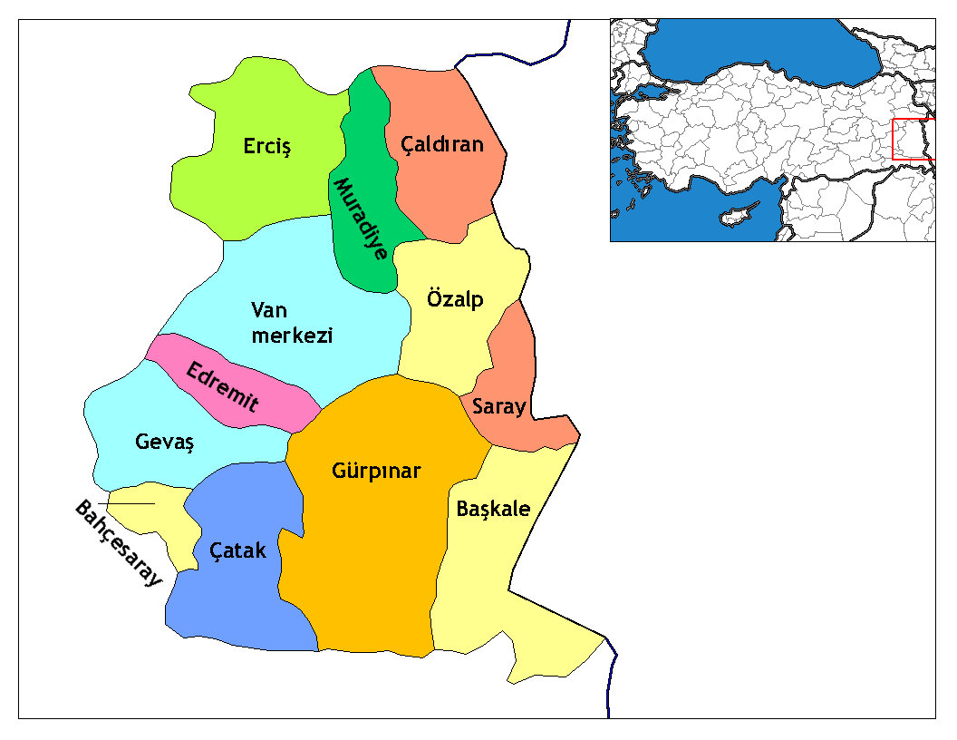 Map of the districts of Van province in Turkey. Created by Rarelibra 17:53, 4 December 2006 (UTC) for public domain use, using MapInfo Professional v8.5 and various mapping resources. Edited by One Homo Sapiens Corrected text where İ,Ş,ı,ğ,or ş occurs in name. Source: [statoids-com]. Increased font size and enhanced color differences among adjacent districts.